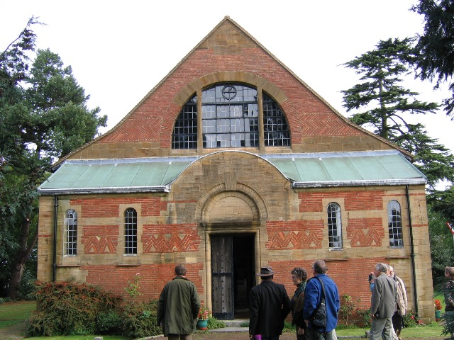 Wisdom of God, Buckland Road. A grade I listed Anglican church with the unusual dedication to "Jesus Christ the Wisdom of God", which is pretty enough outside but its real treasures are within. Unique in England, its basilica-style interior is filled with genuine marbles and mosaics from ancient Rome and Byzantium.